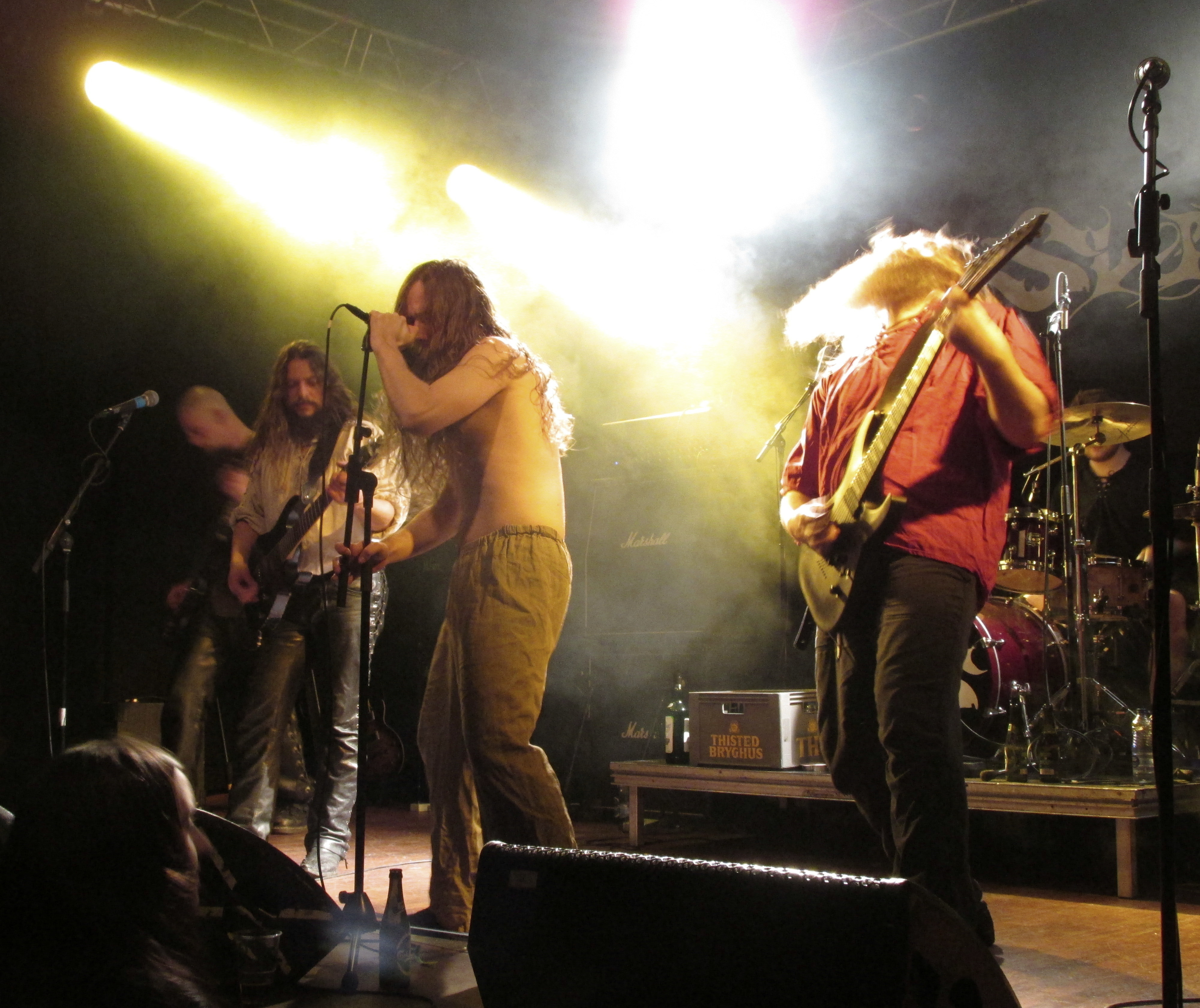 Svartsot concert in Aalborg, Denmark